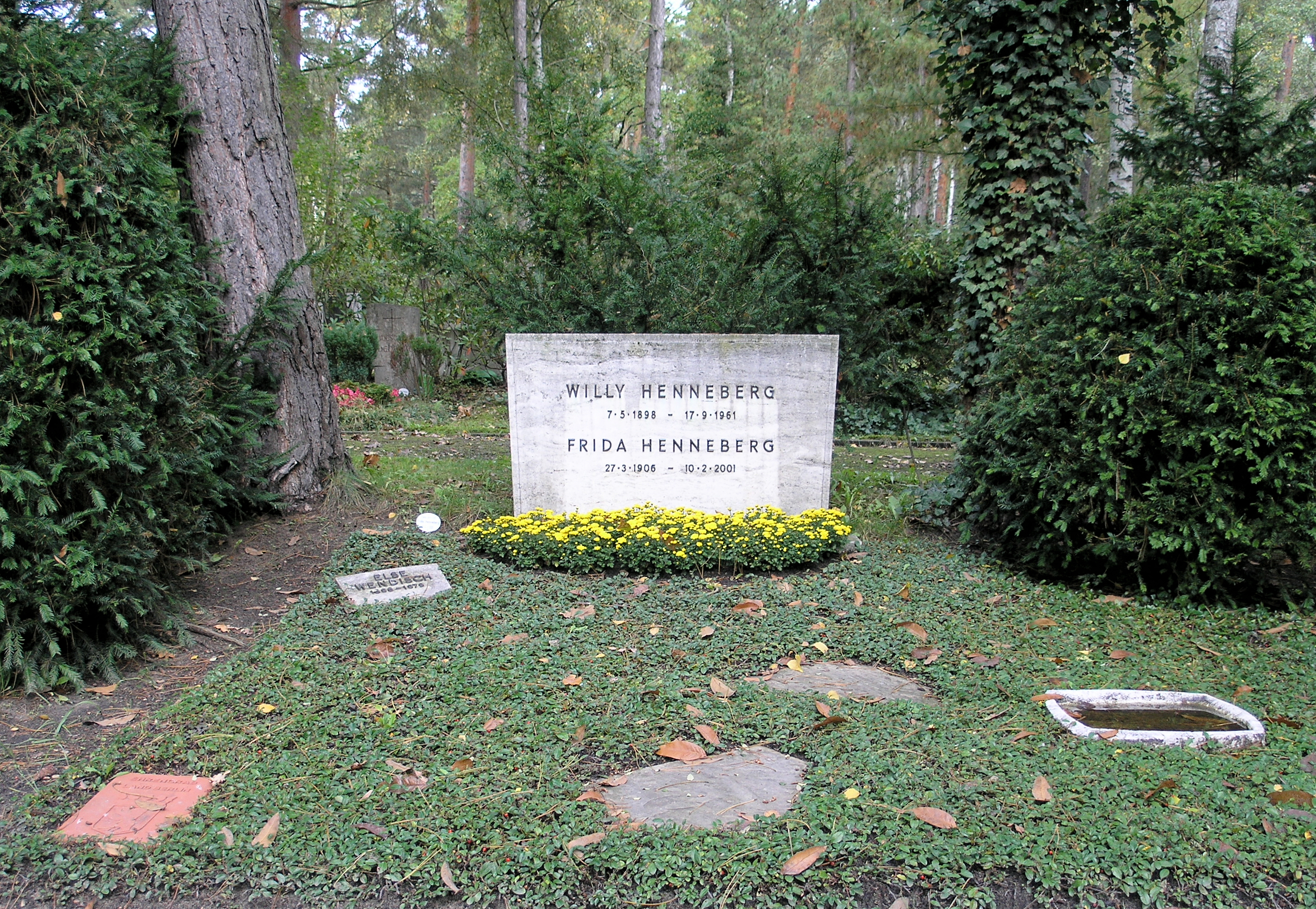 "Ehrengrab" (grave of honor), Willy Henneberg, Potsdamer Chaussee 75, Berlin-Nikolassee, Germany Koordinate:52°25′23″N 13°12′38″E / 52.42306°N 13.21056°E